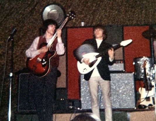 Rolling Stones in Statesboro The Rolling Stones perform at Georgia Southern College-May 4,1965. Photo by Kevin Delaney with a 110 Kodak Instamatic.